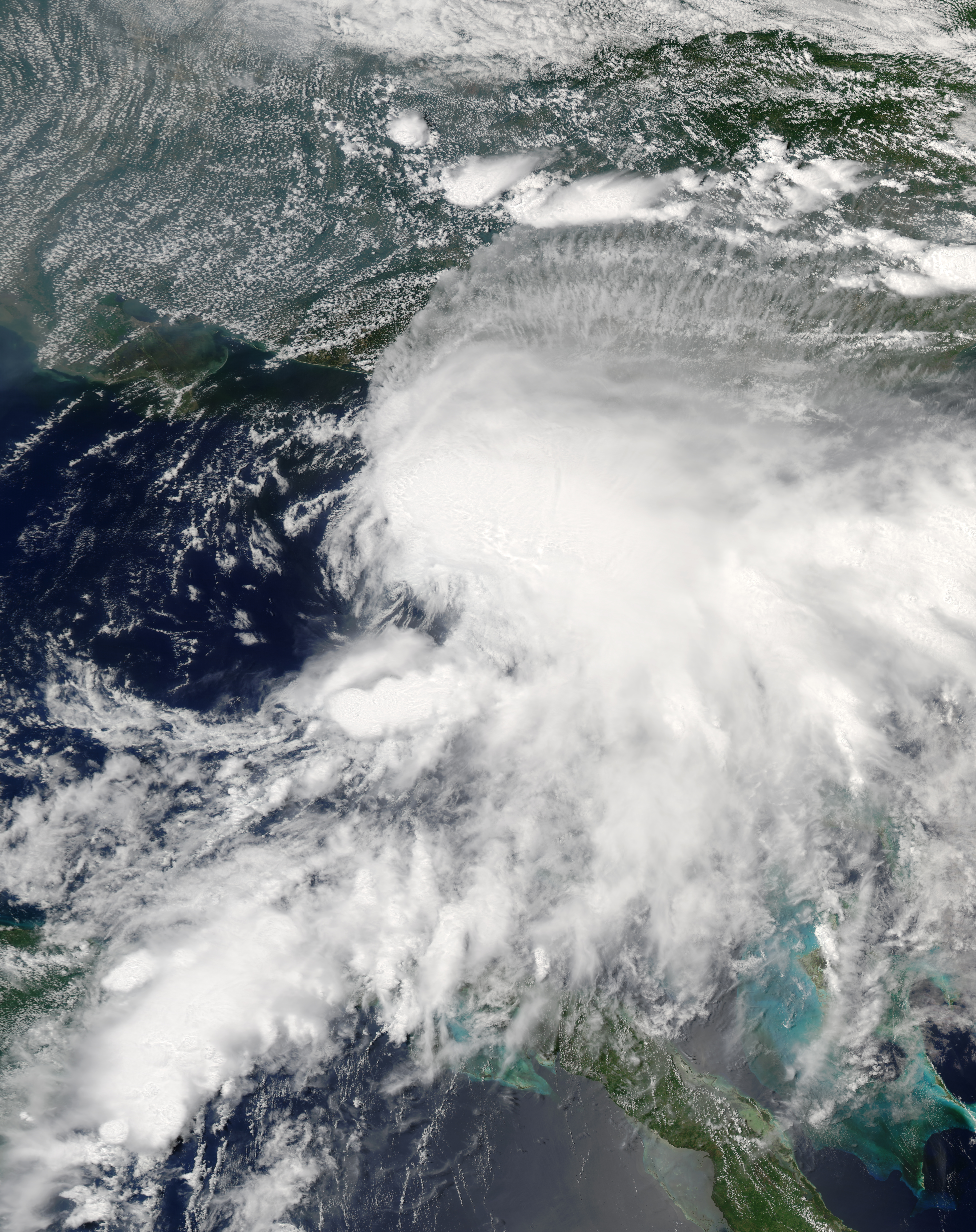 Tropical Storm Alberto formed as a tropical depression early in the morning on June 10, 2006, in the Yucatan Channel. Alberto gradually gathered strength as it took a slow track northward into the Gulf. By early morning on June 11, wind strength within the storm crossed the critical threshold of 39 knots (70 kilometers per hour; 45 miles per hour). Thus Alberto became the first named storm of the 2006 Atlantic hurricane season. Although Alberto briefly flirted with hurricane status as wind speeds came close to the necessary 64 knots (118 km/hr; 74 mph), the system remained a strong tropical storm as of the morning of June 13, and it was projected to weaken as it comes ashore in northern Florida. This photo-like image was acquired by the Moderate Resolution Imaging Spectroradiometer (MODIS) on the Aqua satellite on June 12, 2006, at 2:35 p.m. local time (18:35 UTC). The tropical storm did have hints of a spiral structure, but as in earlier satellite images, the bulk of the clouds and rainfall from the storm were east of the storm’s center. This large mass of clouds in the image appears over the Florida panhandle and mainland Florida, while the wind circulation center is located roughly 200 kilometers (120 miles) to the west of Tampa. Sustained winds in the storm system were estimated to be around 110 kilometers per hour (70 miles per hour) around the time the image was captured, according to the University of Hawaii’s Tropical Storm Information Center. However, the less-than-hurricane-strength winds did not mean that Alberto posed no significant hazards. Rainfall totals from the storm were predicted to be between 12 to 25 centimeters (5 to 10 inches), and the storm center was also expected to spawn tornadoes once Alberto crossed land. Drought-stricken Florida was looking for rain, but the heavy downpours predicted were also causing concerns about local flooding.